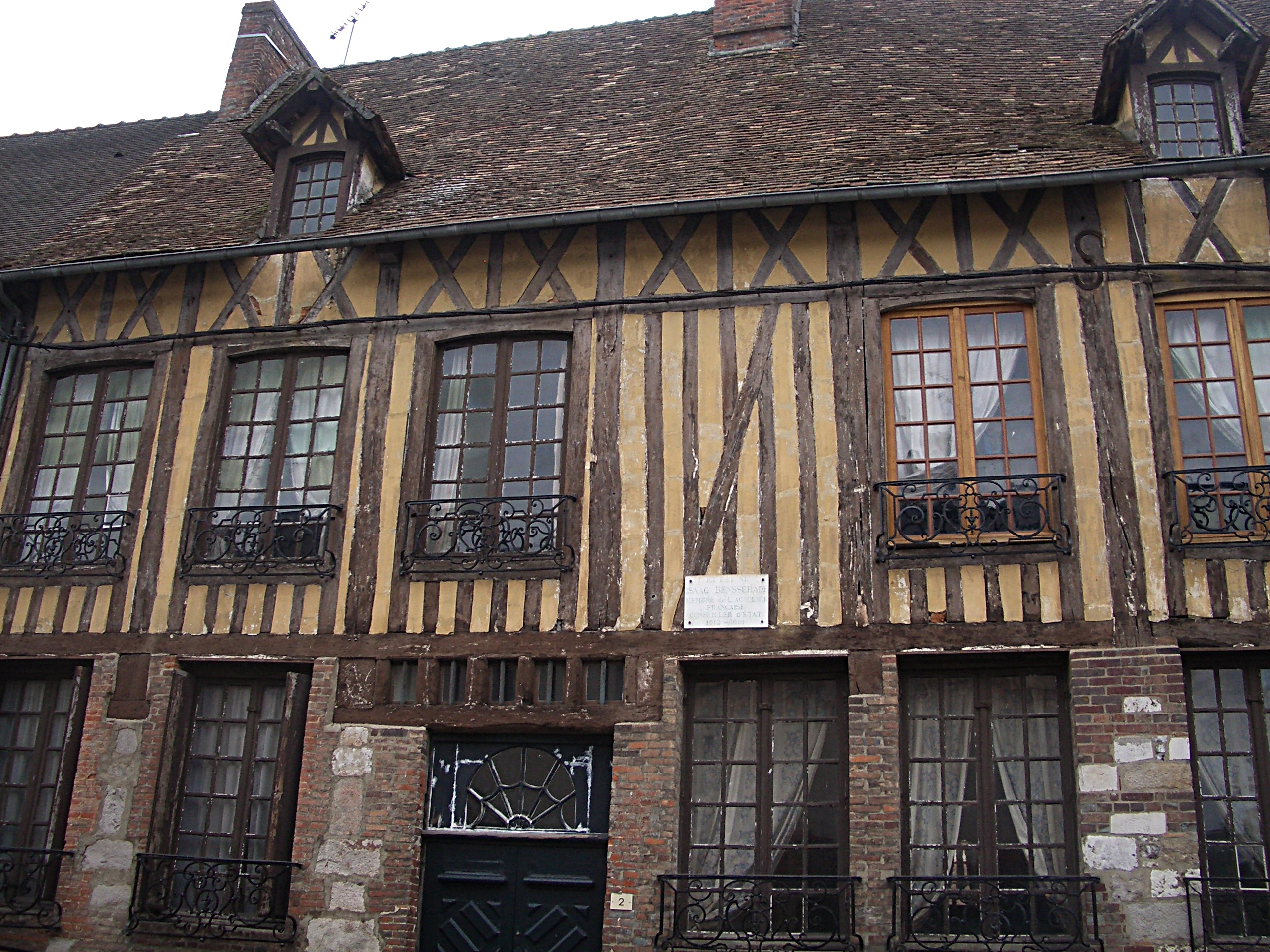 Natal house of Benserade, in Lyons-la-Forêt (Eure) France